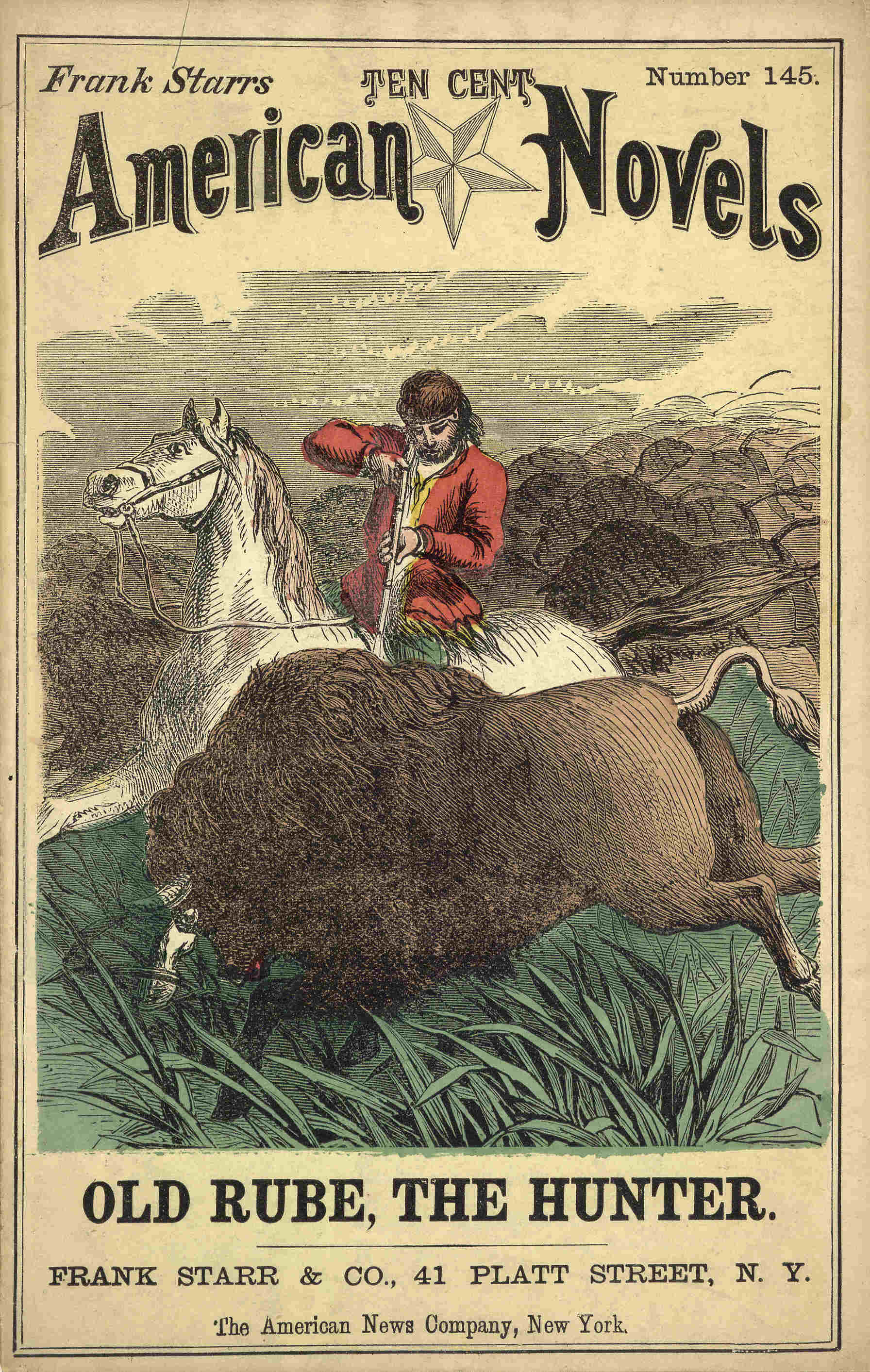 Hamilton Holmes [1]. Old Rube, the Hunter (Ten Cent American Novels, No. 145). 1866.